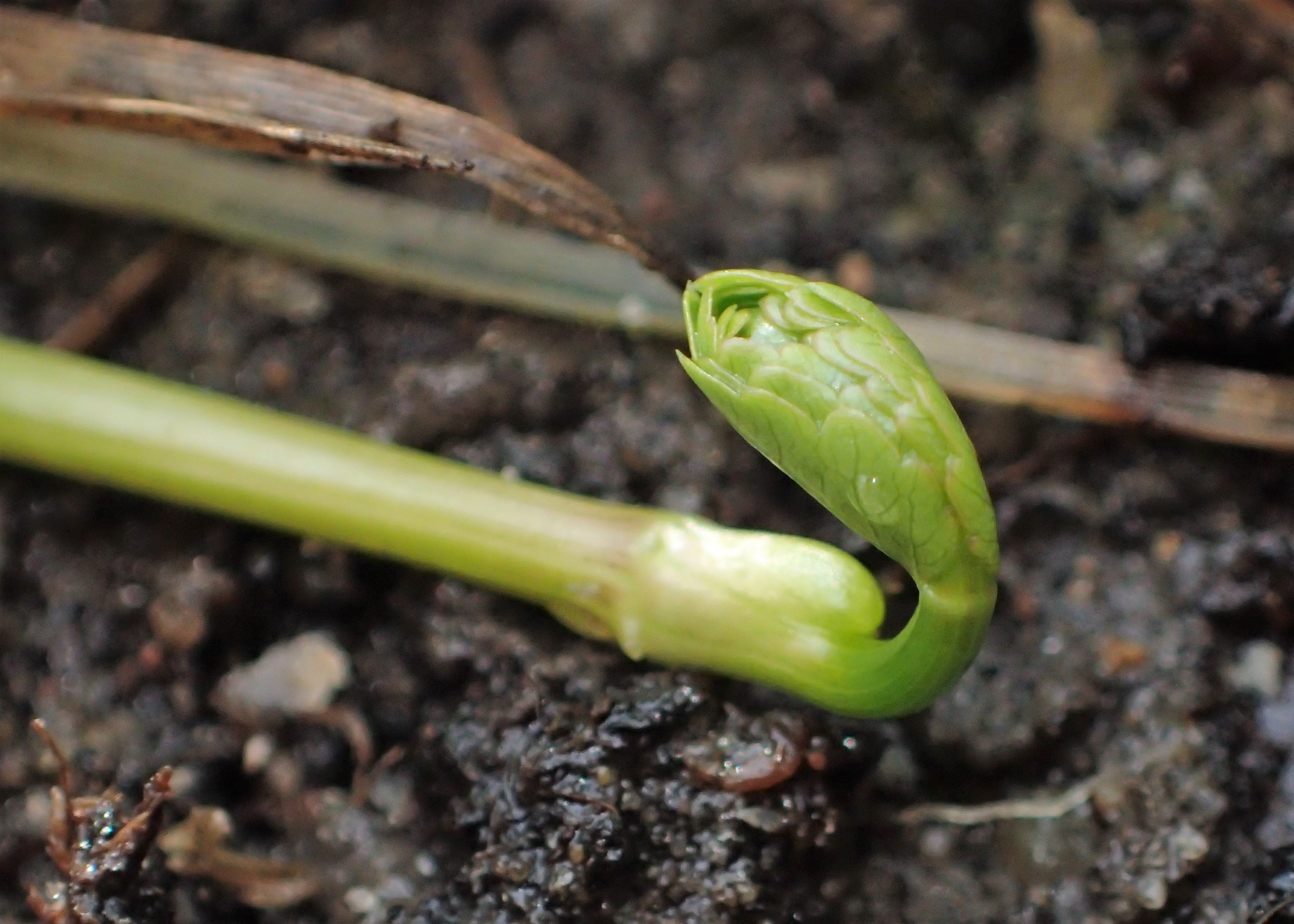 Helosciadium repens, stolon, Wierzbno, NW Poland